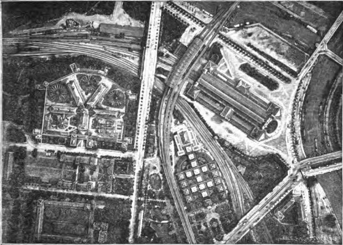 Aerial photograph of Berlin (Lehrter Bahnhof, Invalidenstraße) from July 1886, taken from a balloon by Lieutenant Hugo vom Hagen (1856-1913).